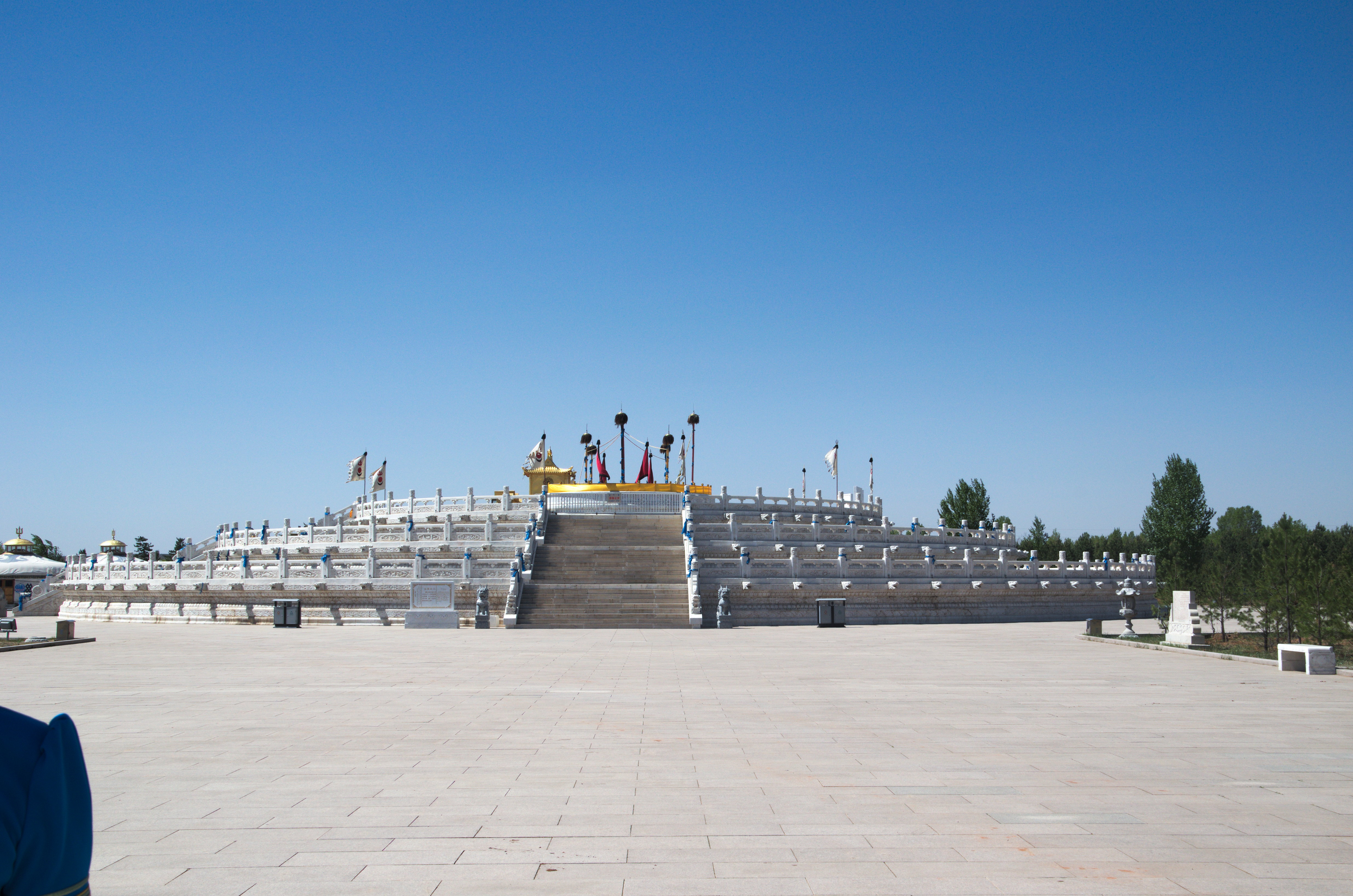 Altair of the Mausoleum of Genghis Khan, in Dongsheng district, Ordos, Inner Mongolia, China.